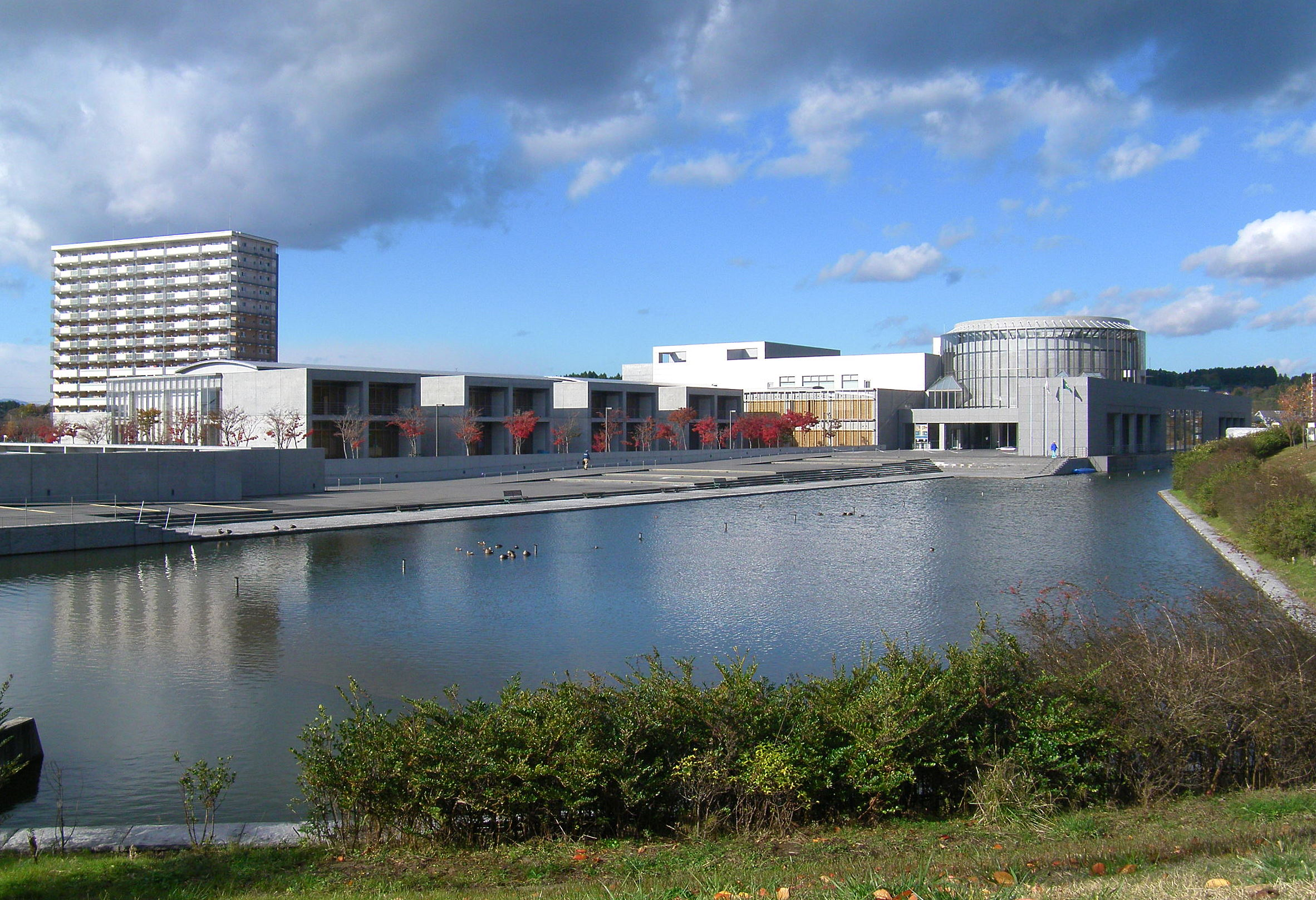 Tohoku History Museum. Tagajō, Miyagi prefecture, Japan. Northward.